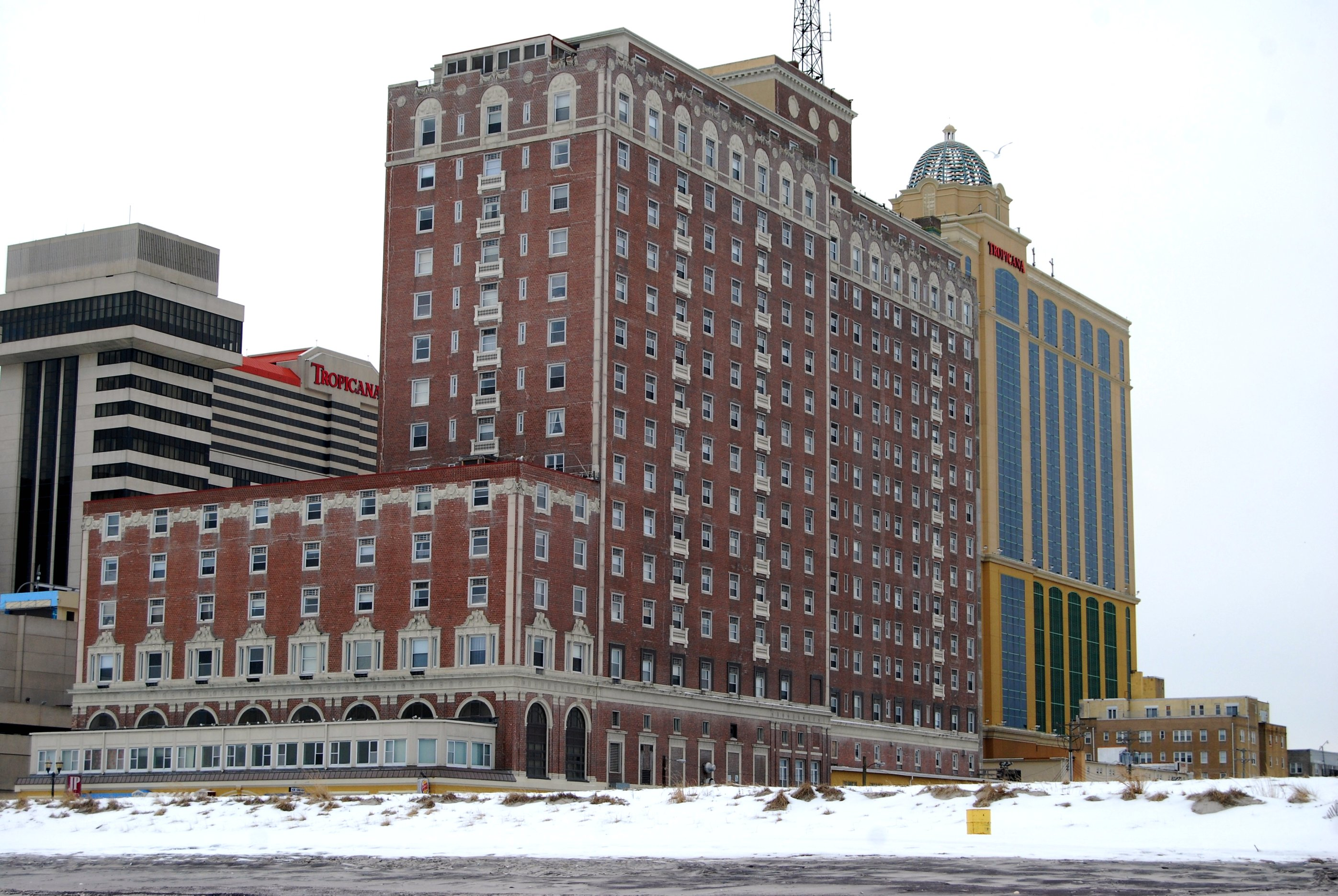 The former Ritz Carlton Hotel in Atlantic City, New Jersey. The building was converted to condominiums in 1982.